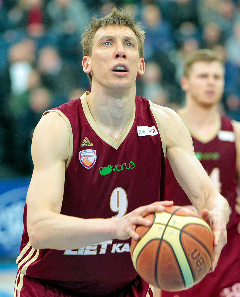 Basketball player Dainius Šalenga